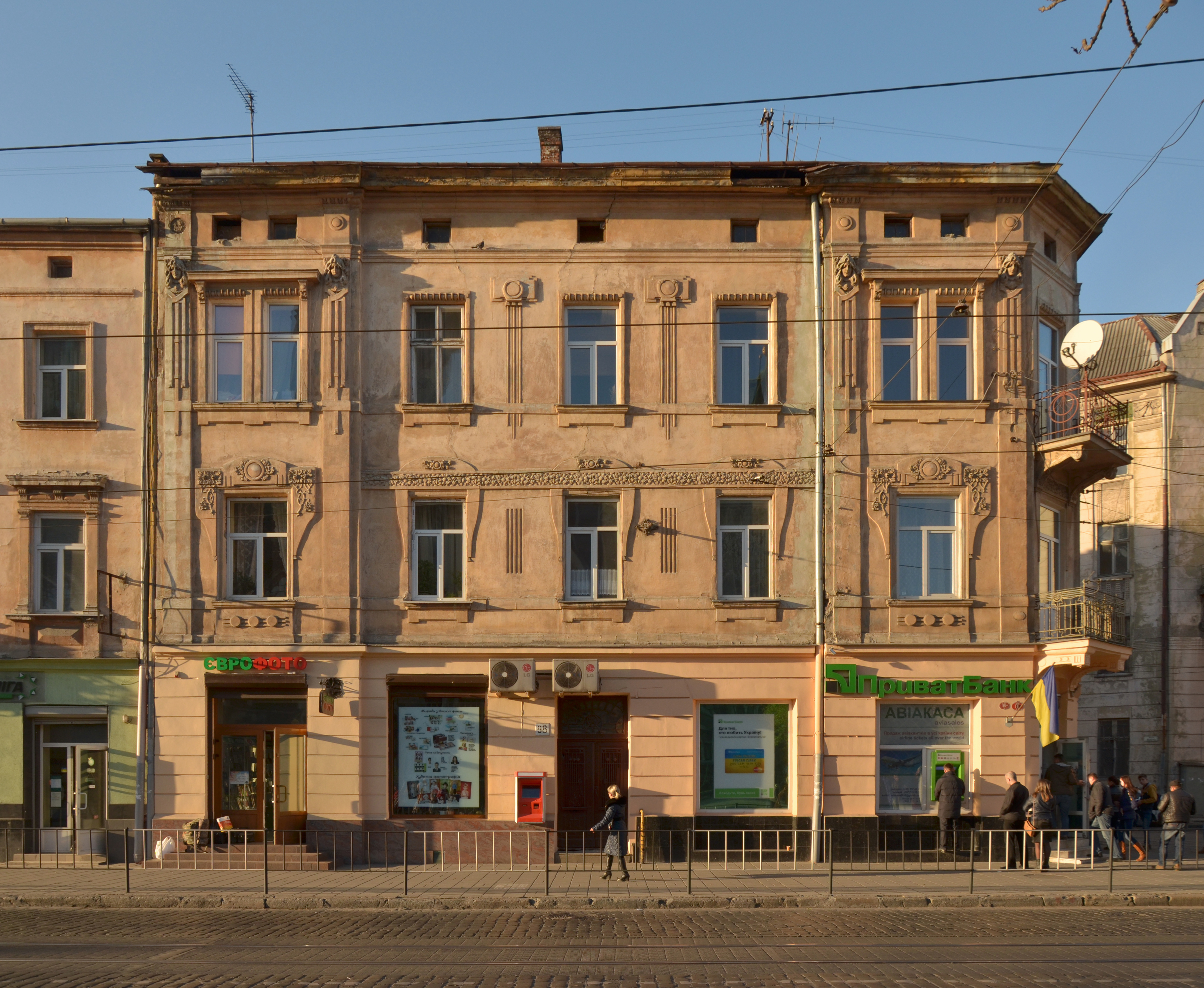 98 Horodotska Street, Lviv.